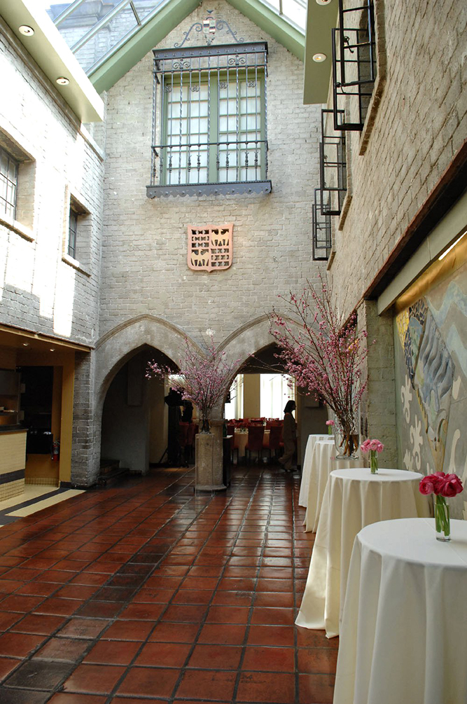 Interior covered courtyard at Campanile restaurant that served as one of the dining rooms